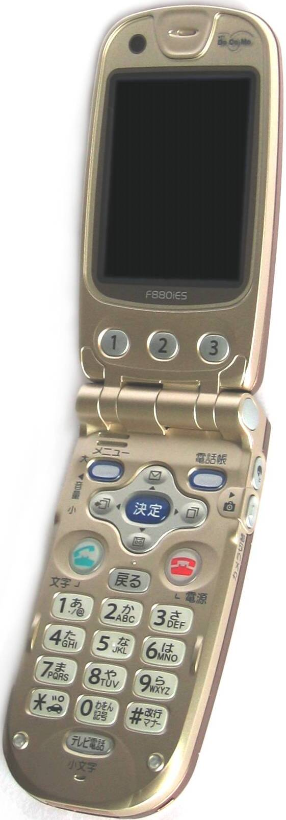 NTT DoCoMo FOMA F880iES is a Japanese mobile telephone that was designed for the aged who cannot use many functional mobile telephones.